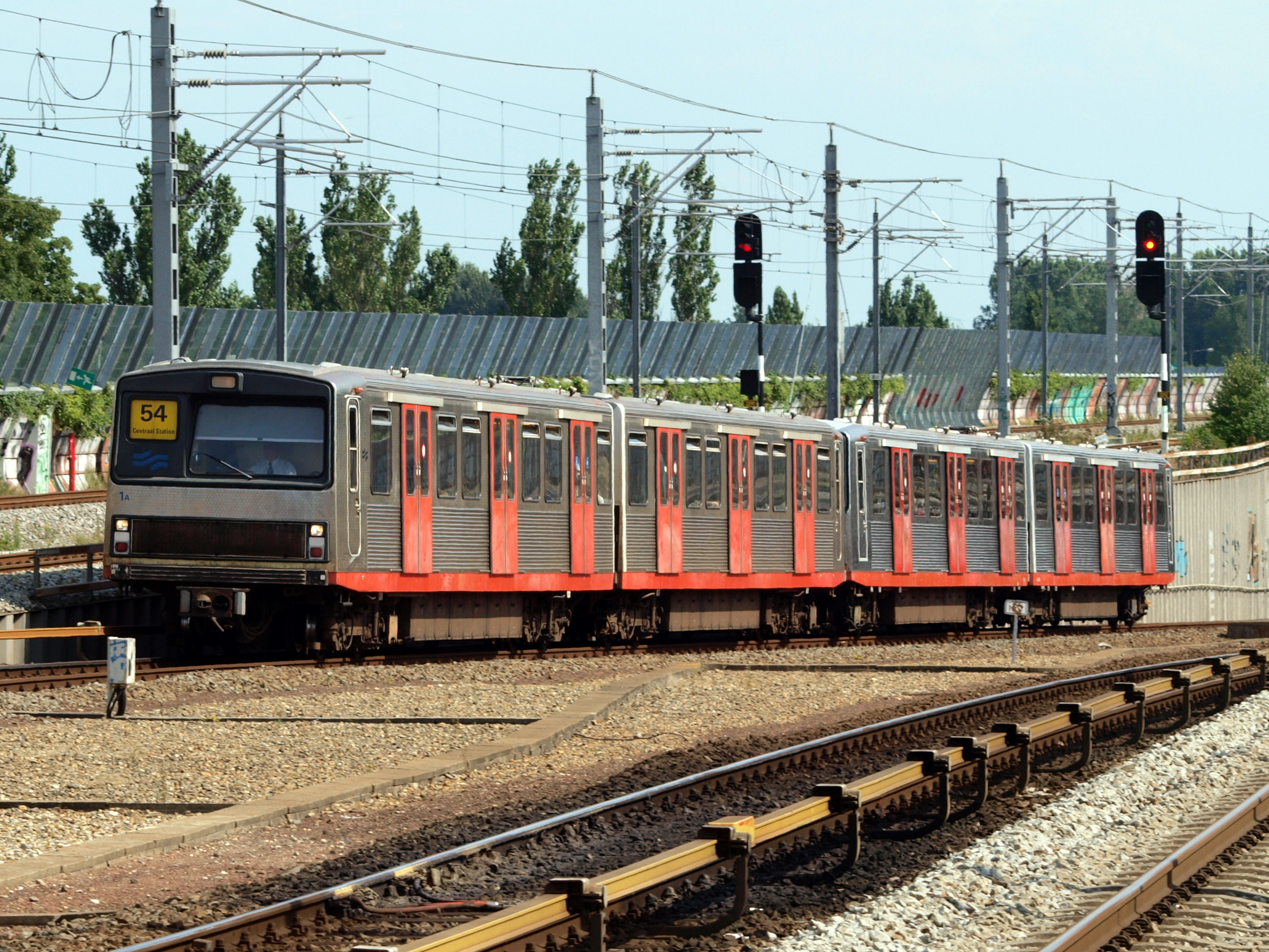 Photographed in Spain.